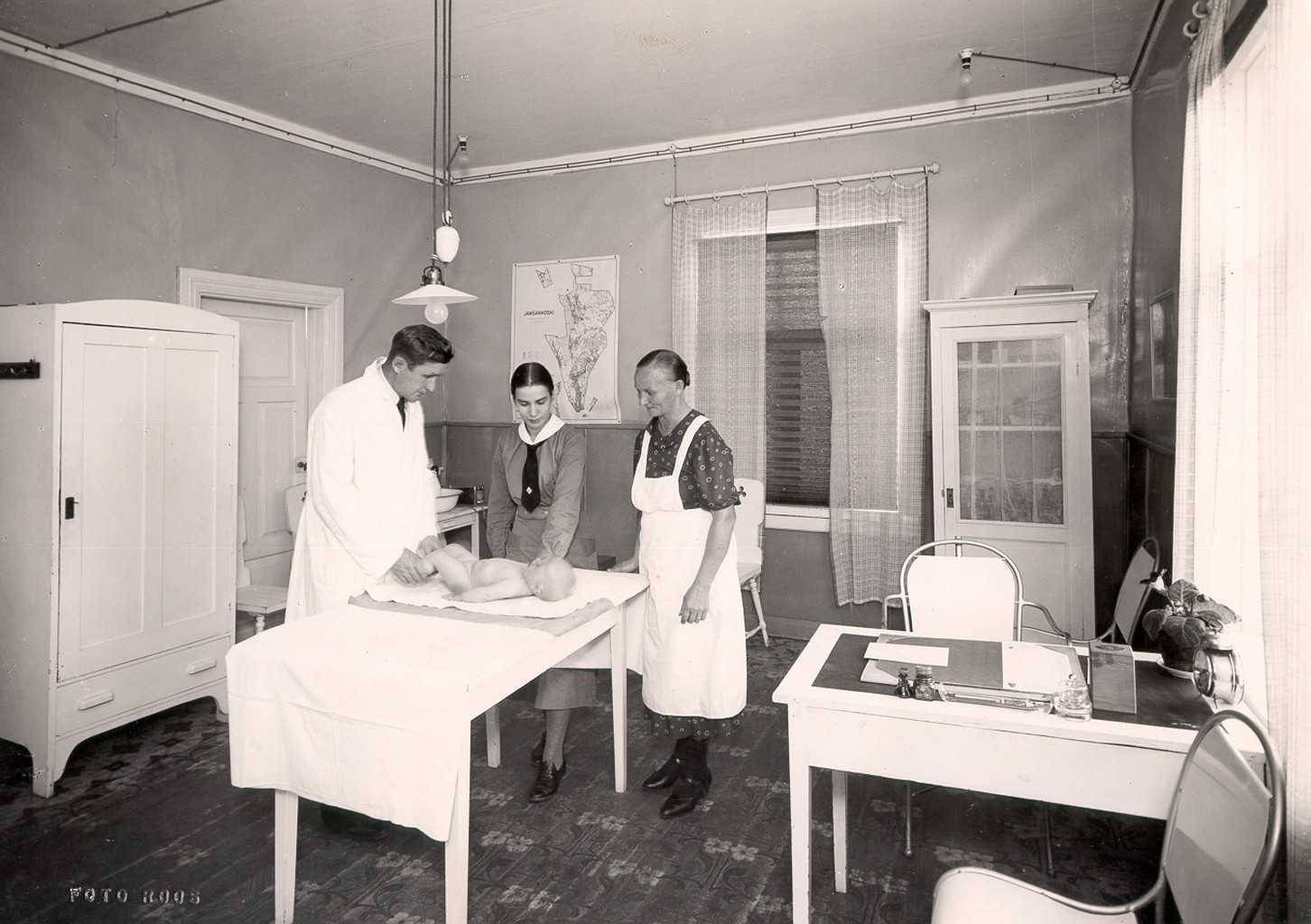 Clinic of Mannerheim League for Child Welfare in Jämsänkoski, Finland in 1938